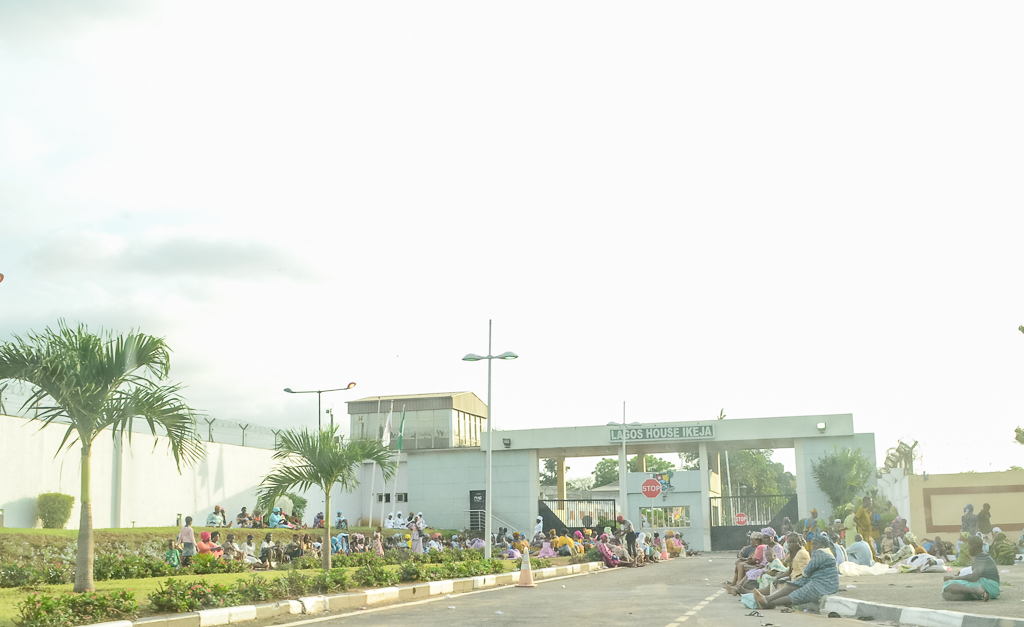 Entrance of Lagos House Ikeja